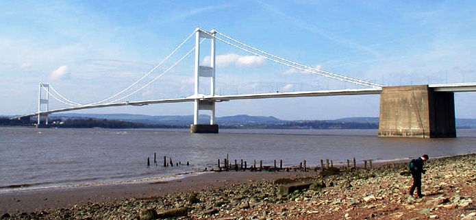 Smaller version of File:Old.severn.bridge.800pix.jpg. Cropped and exposure and contrast adjusted. The Severn Bridge seen from the English side of the river . is 1 0f 2 bridges connecting Wales to England Photographed by Adrian Pingstone in April 2002 and released to the public domain.